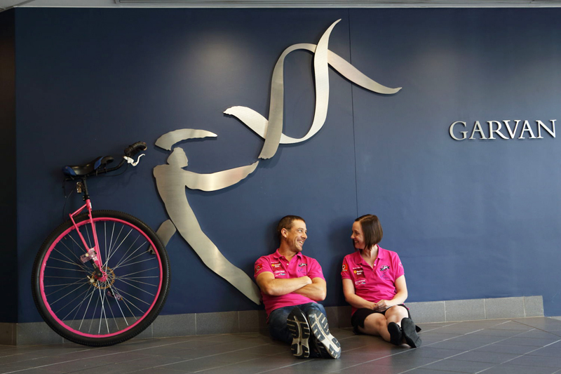 Samuel and Connie Johnson visiting the Garvan Institute of Medical Research as part of Samuel's unicycle world record attempt.